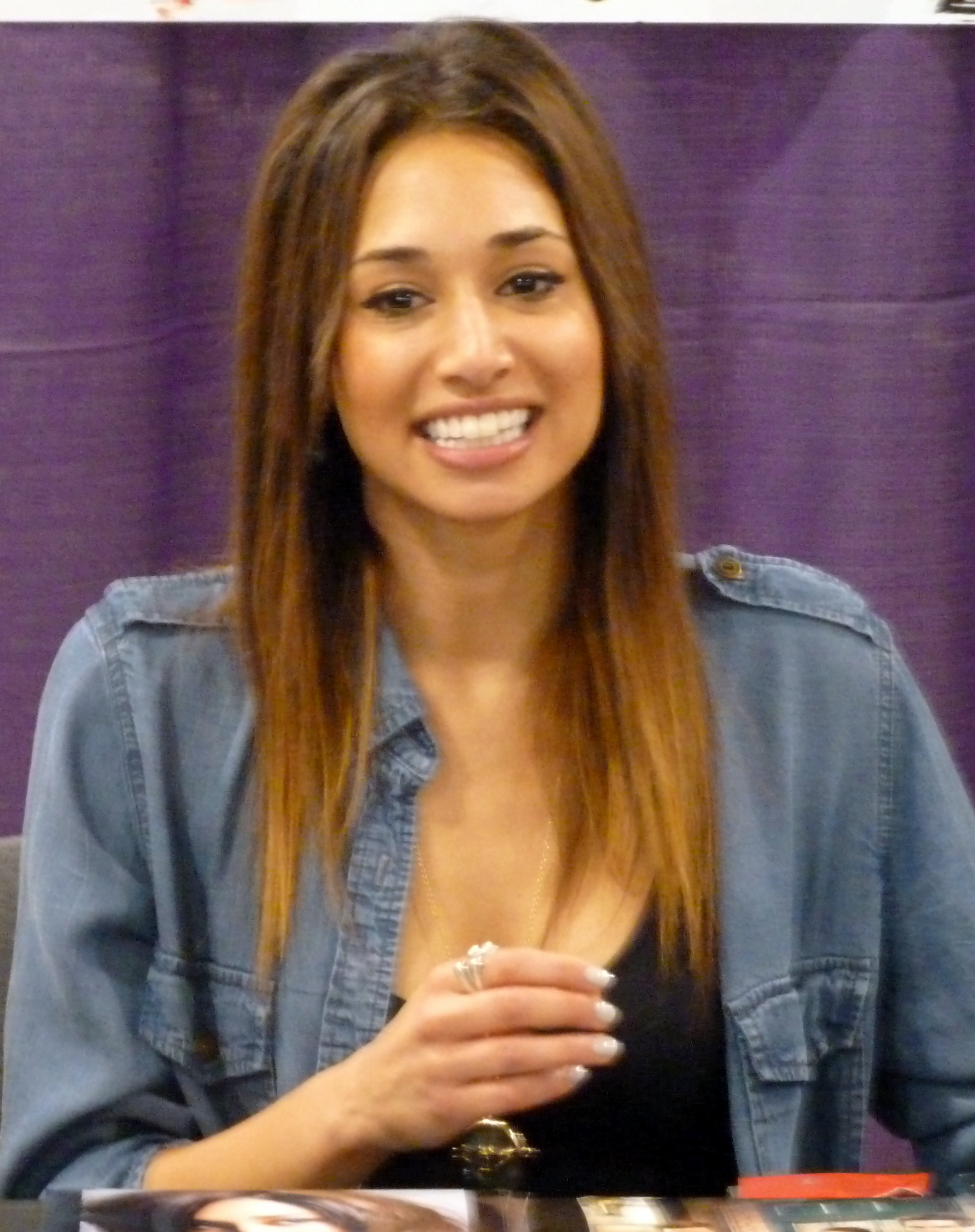 Meaghan Rath of "Being Human" at Wizard World Toronto 2012.